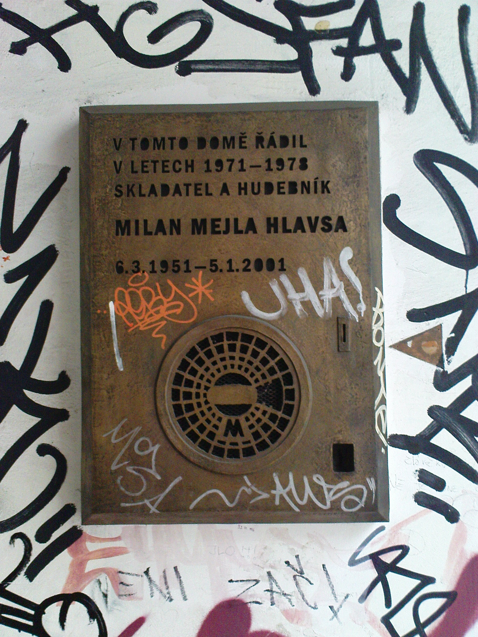 Commemorative plaque of Milan "Mejla" Hlavsa in Prague. After inserting a coin, a maschine inside used to play Hlavsas most famous song "Muchomůrky bílé". The plaque was allegedly stolen in April 2011.